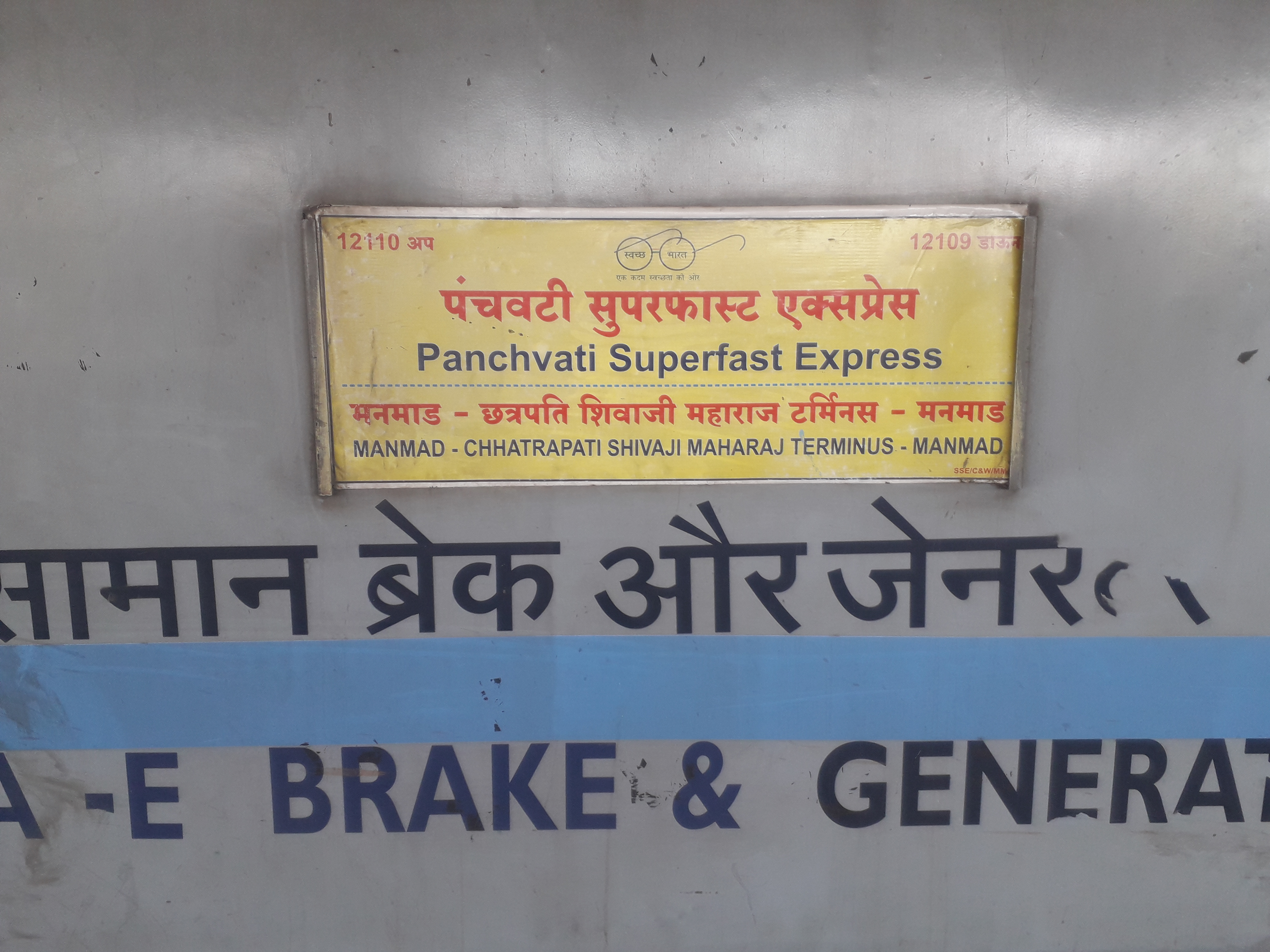 12109 Panchavati Express - Train board